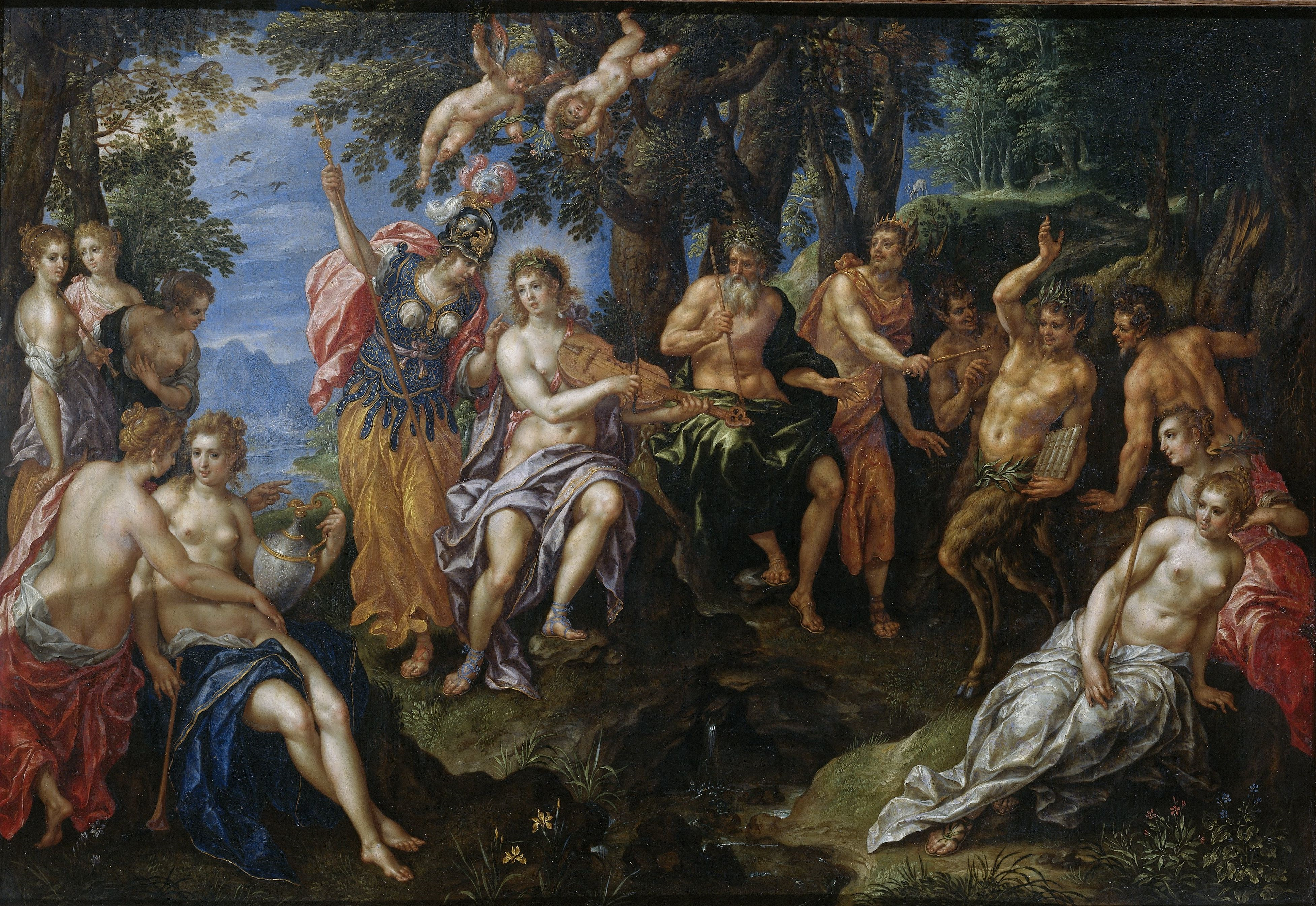 The contest between Apollo and Pan with the Judgment of Midas. Apollo is playing his violin with Athena by his side. In the center sits Tmolus acting as judge. Next to him Midas, with donkey ears, and Pan with pan flute throwing his hand in the air in joy. The audience consists of satyrs and Muses.